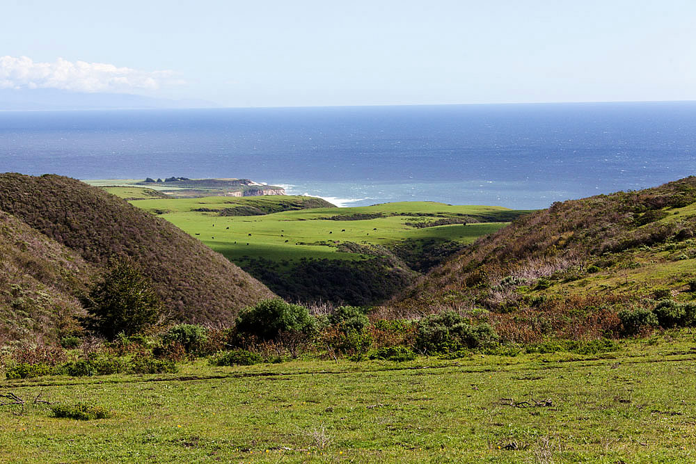 One of the stunning views from the Coast Dairies in Santa Cruz County, California. BLM photo